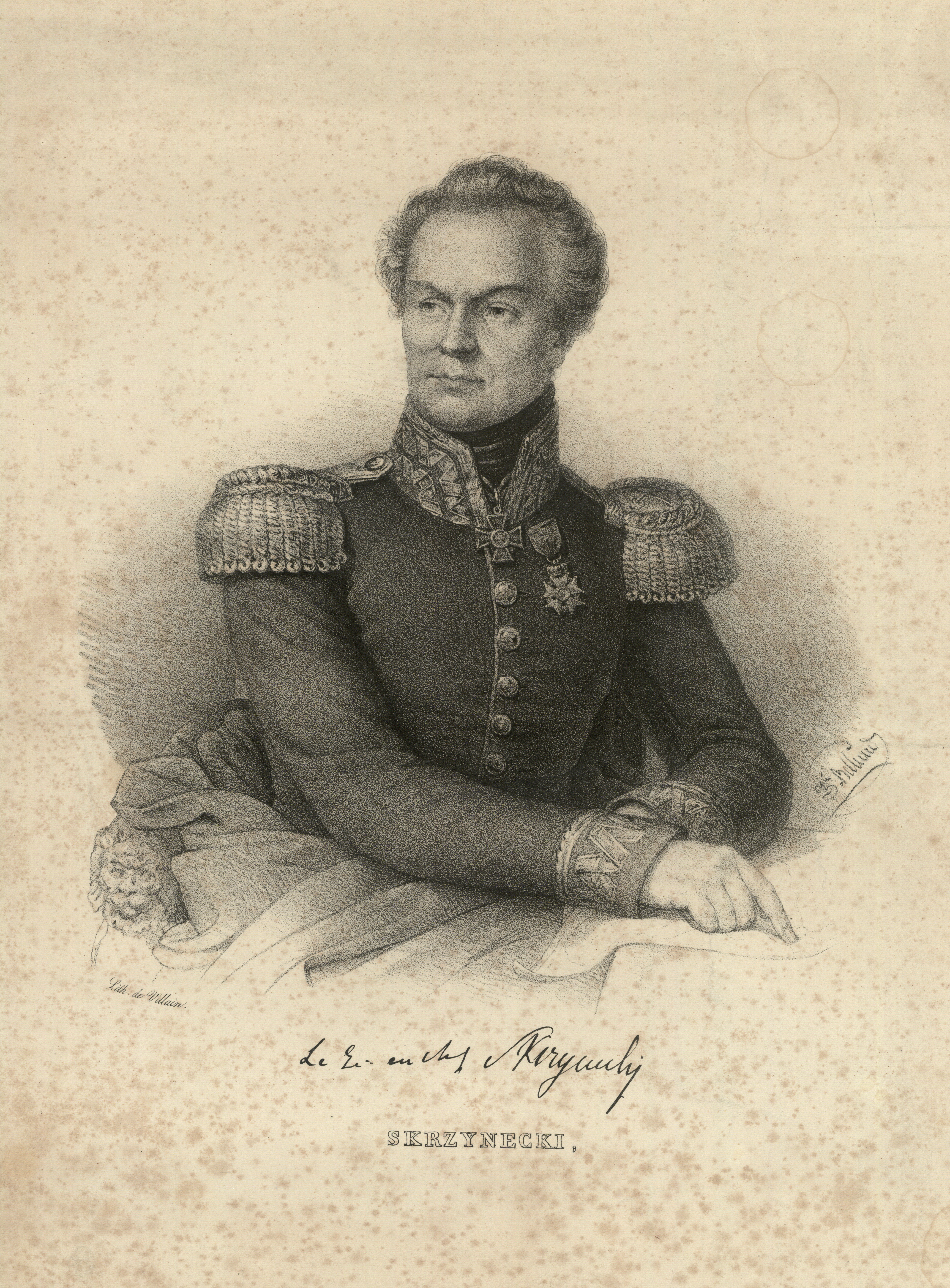 Jan Zygmunt Skrzynecki (1787–1860) was a Polish general, Commander-in-Chief of the November Uprising (1830–1831). French lithography published in the book by J. Straszewicz Die Polen und die Polinnen der Revolution vom 29 November 1830, Stuttgart (1832-1837).